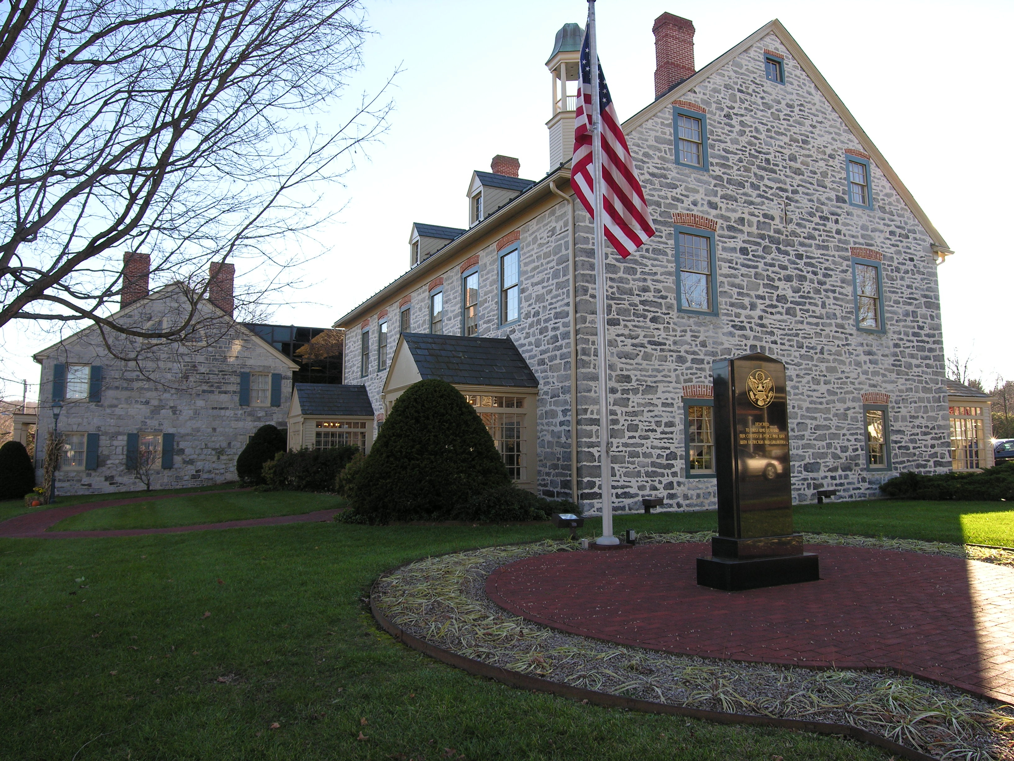 The original Moravian Church in Hope, New Jersey (now the Bank of Hope).